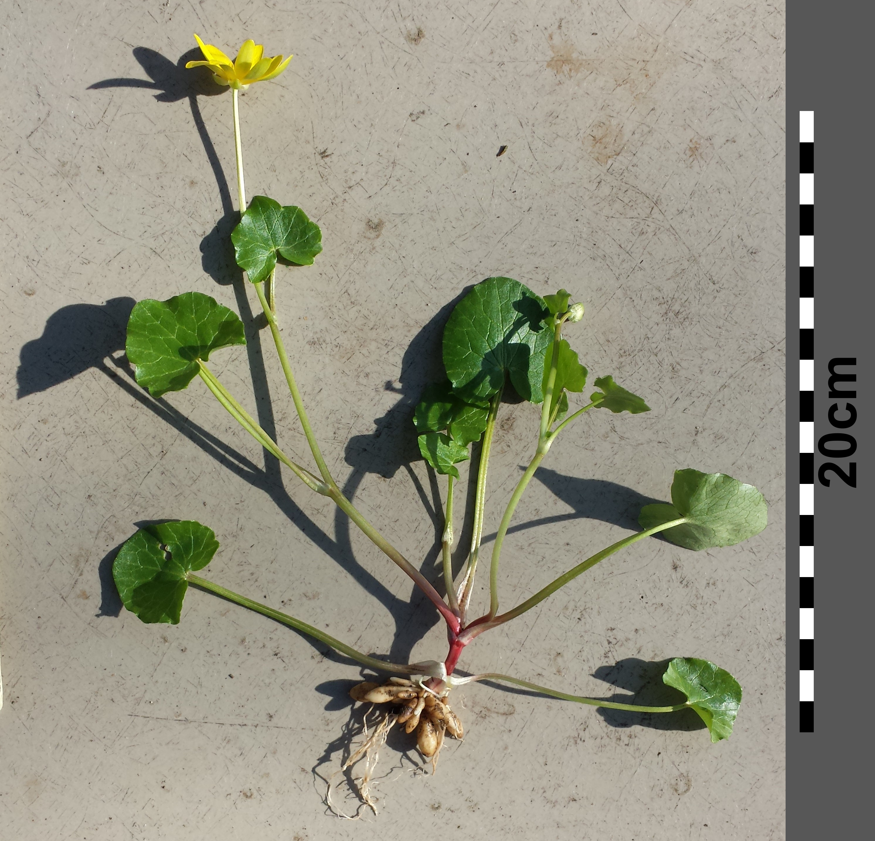 Whole plant Taxonym: Ficaria verna ss Fischer et al. EfÖLS 2008 ISBN 978-3-85474-187-9 Location: near Niederhollabrunn, district Korneuburg, Lower Austria - ca. 350 m a.s.l. Habitat: shrubbery